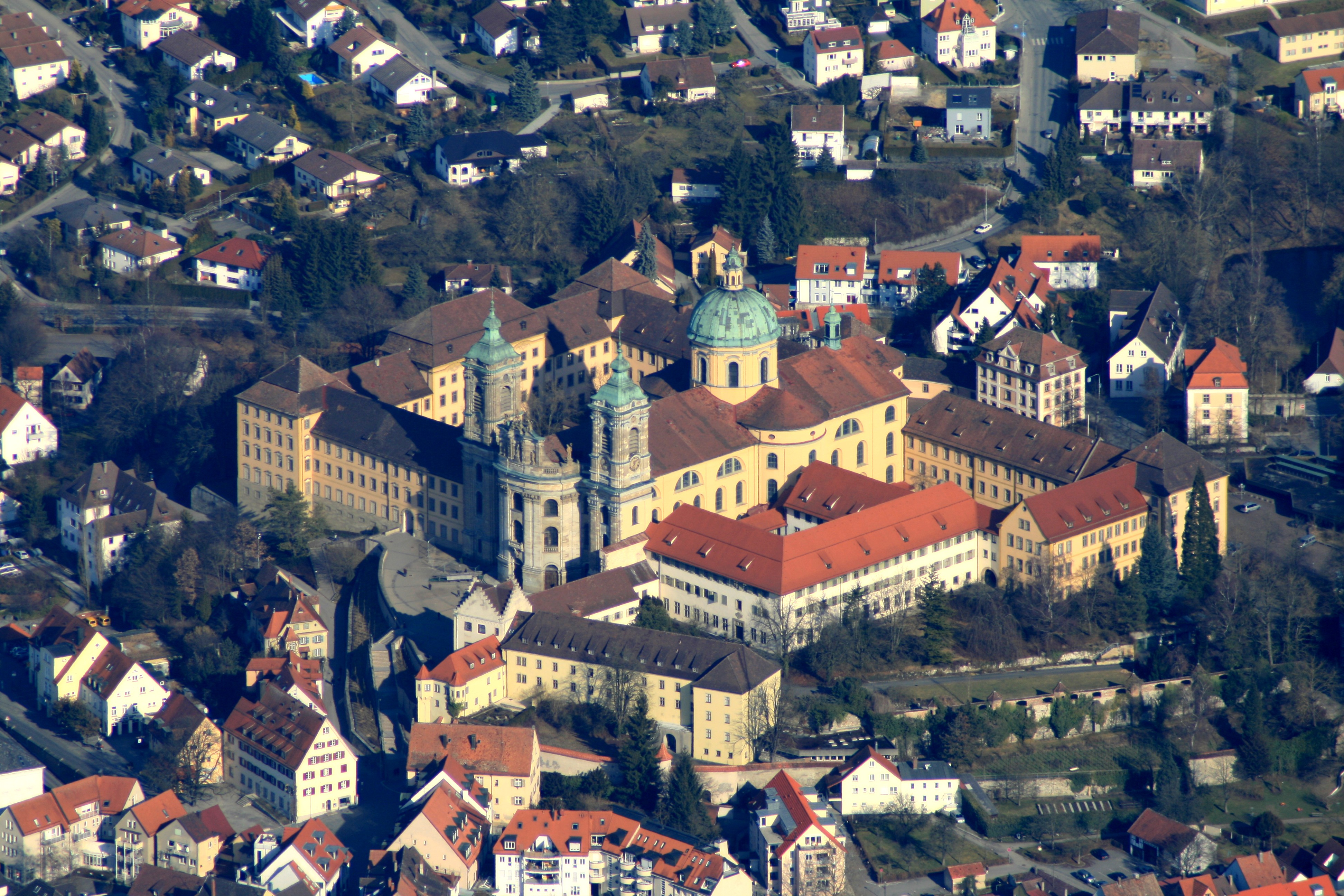 Basilika St. Martin in Weingarten from the bird's view